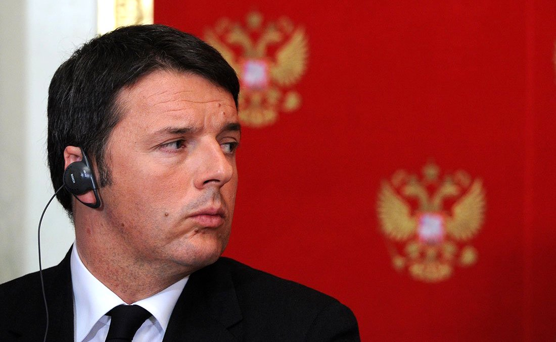 Matteo Renzi in Russia, March 2015